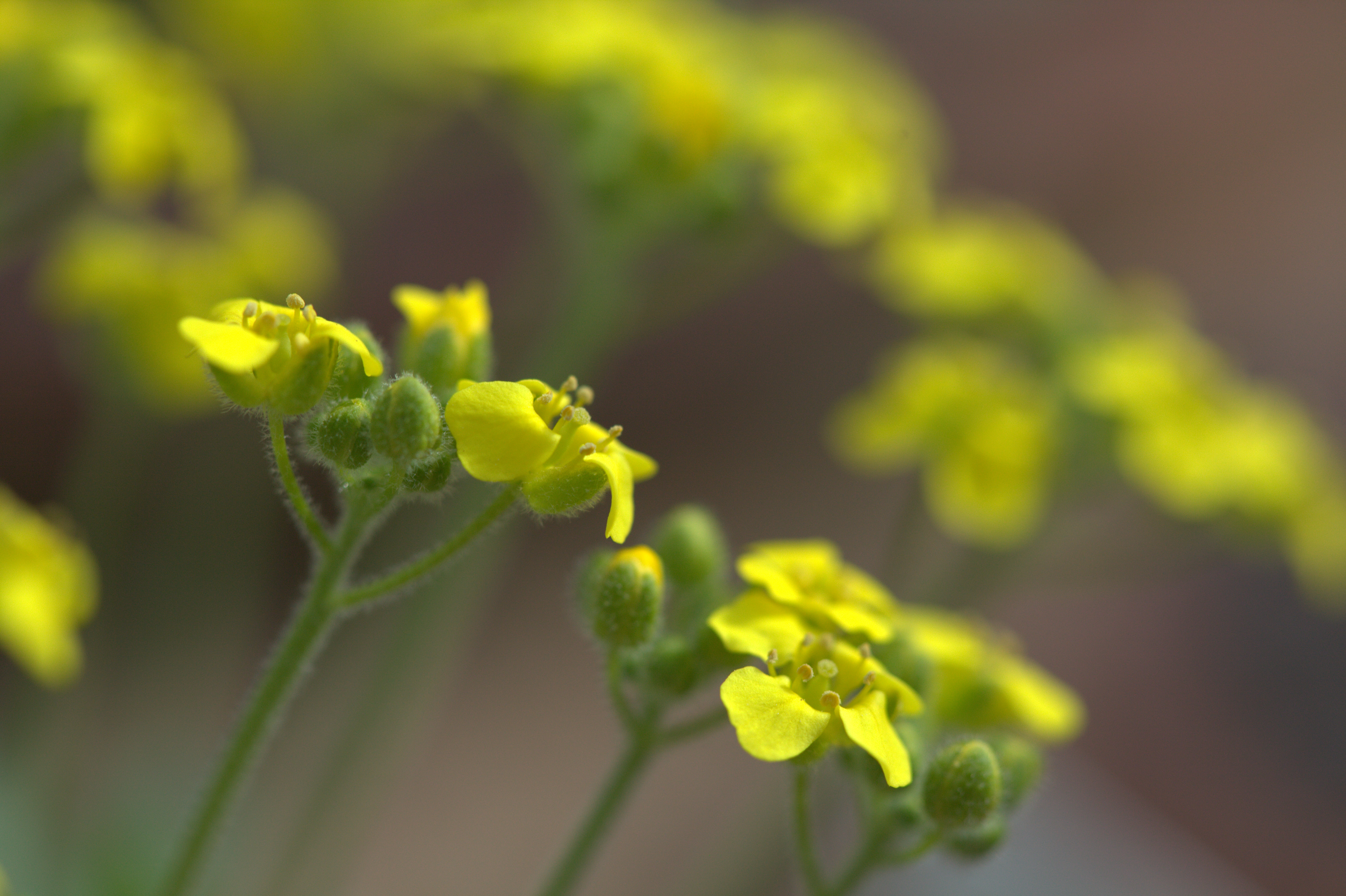 A flowering plant of Draba rosularis seen from the side at one of the botanical garden greenhouses in Gotenburg, Sweden. The plant is approximately 15 cm tall.